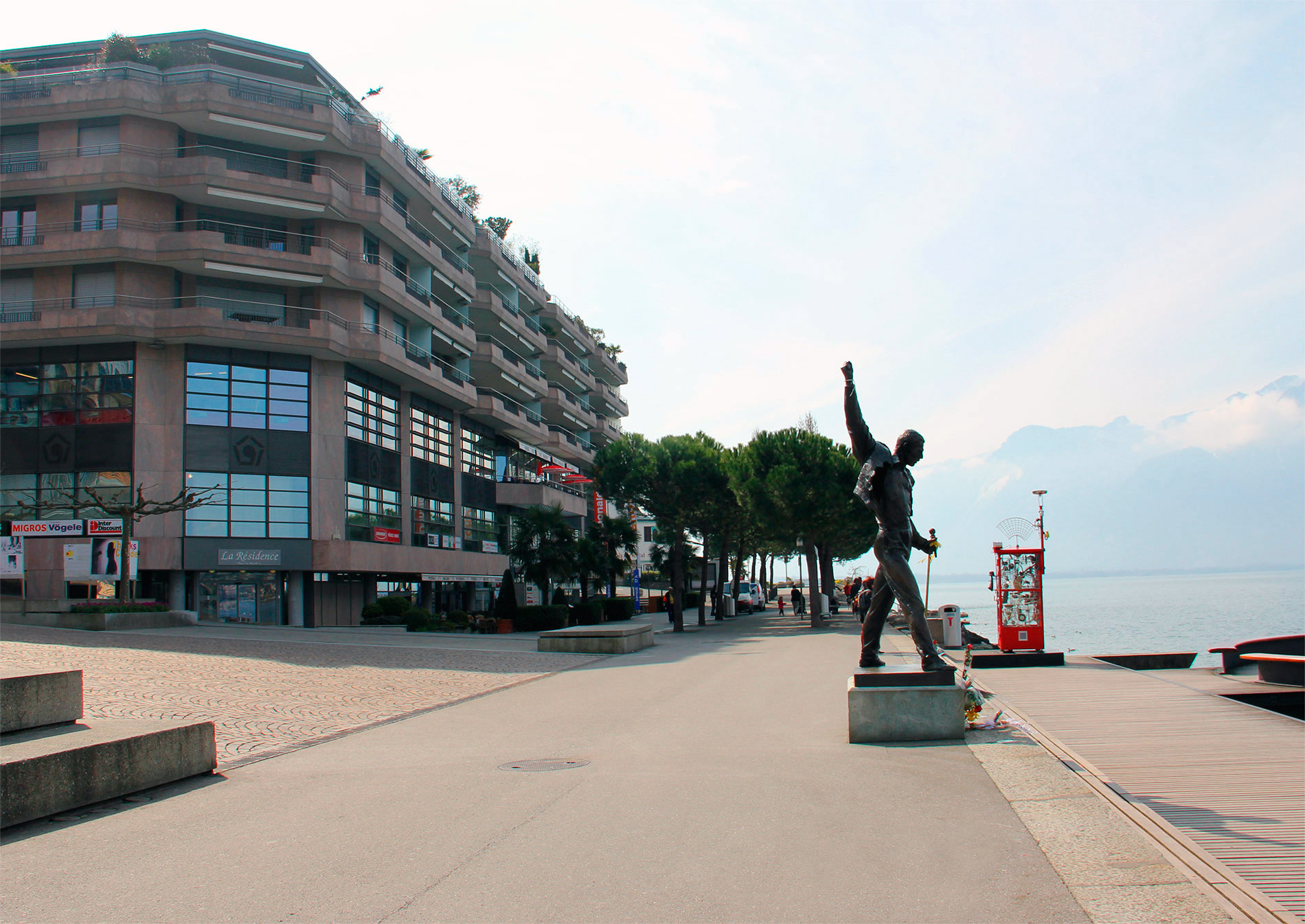 Picture of European University Montreux